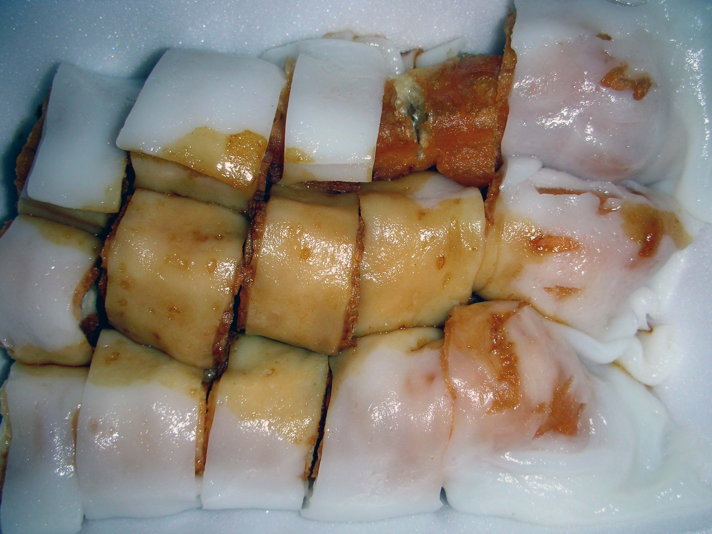 "Ja leung", Youtiao wrapped in a rice noodle roll.